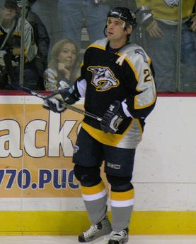 adapted from by PredatorsHockey, re-issued under CC license